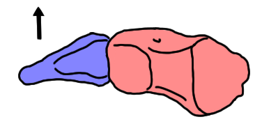 The left ankle of Vancleavea campi seen in proximal view (i.e. with the facets for the fibula and tibia facing the viewer). The calcaneum and astragalus are color-coded similar to archosaur ankle diagrams from Palaeos, with the calcaneum (left) in blue and the astragalus (right) in pink. The arrow indicates the anterior direction.